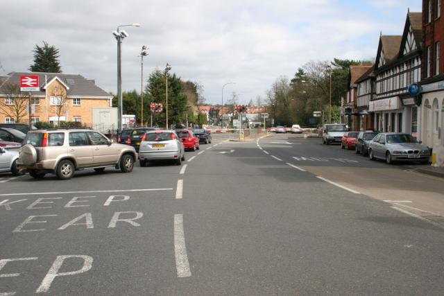 Sunningdale. The level crossing and shopping area on the A30 road.